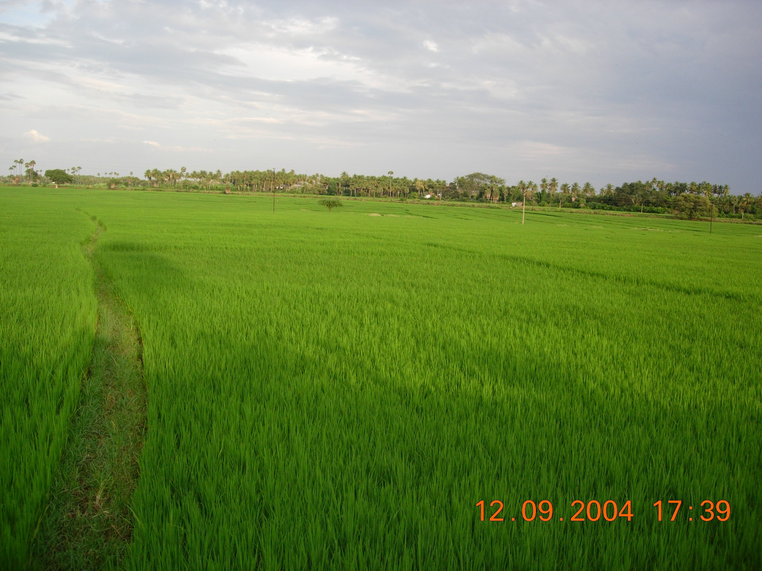 Paddy fields at Gobichettypalayam, Tamil Nadu, India